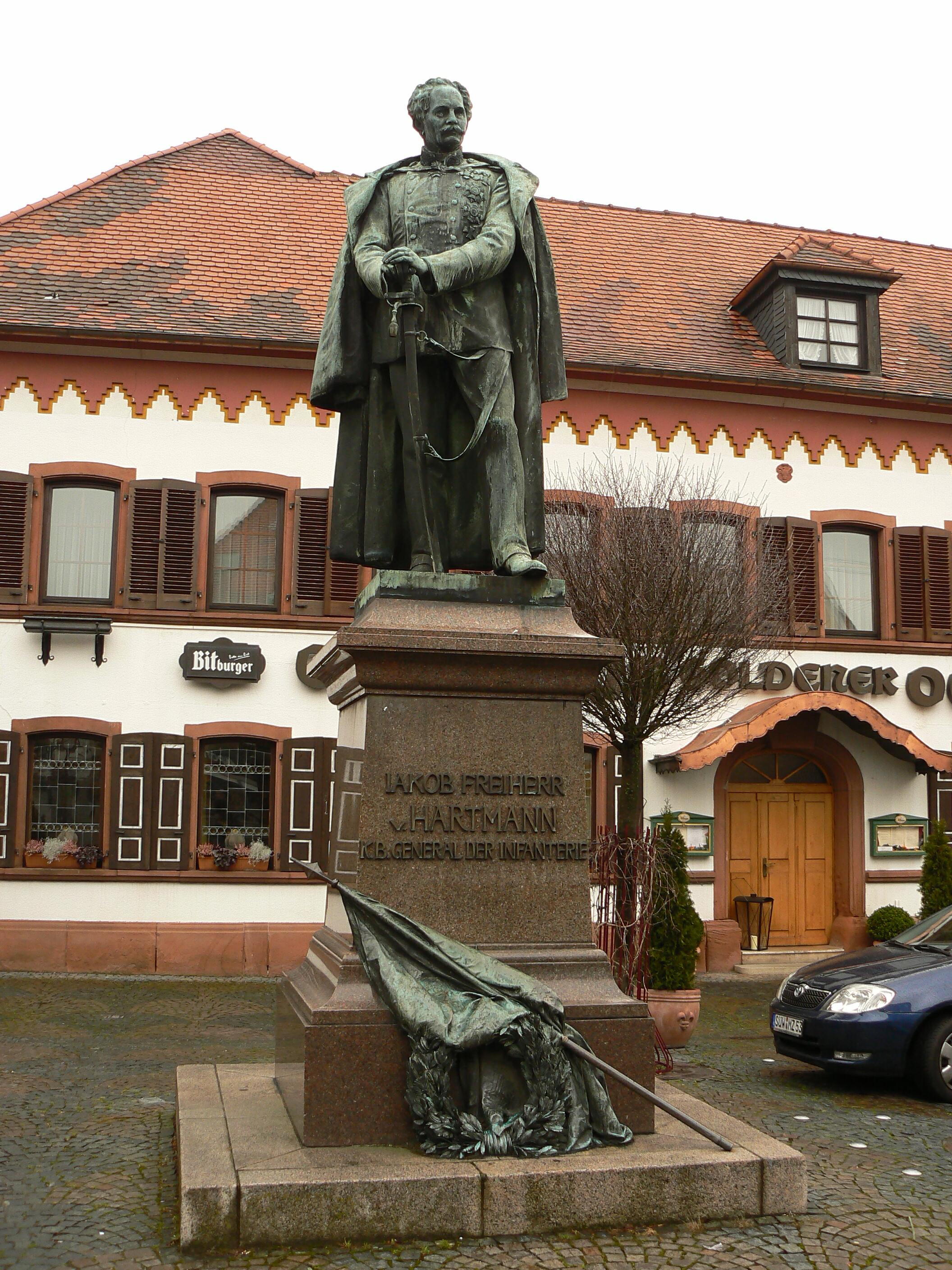 Statue of General Jakob von Hartmann (1795-1873), Maikammer, Südliche Weinstraße, Rhineland-Palatinate, Germany.